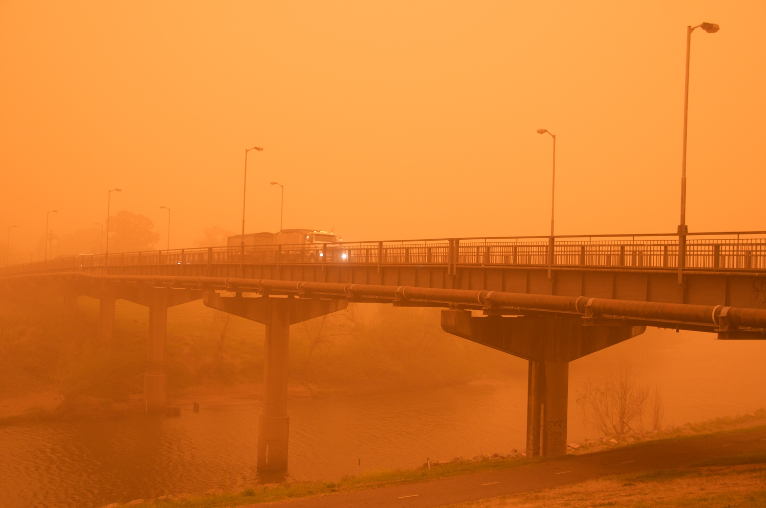 Early morning in New South Wales after red dust or sand storm at Belmore Bridge, Maitland, NSW, Australia